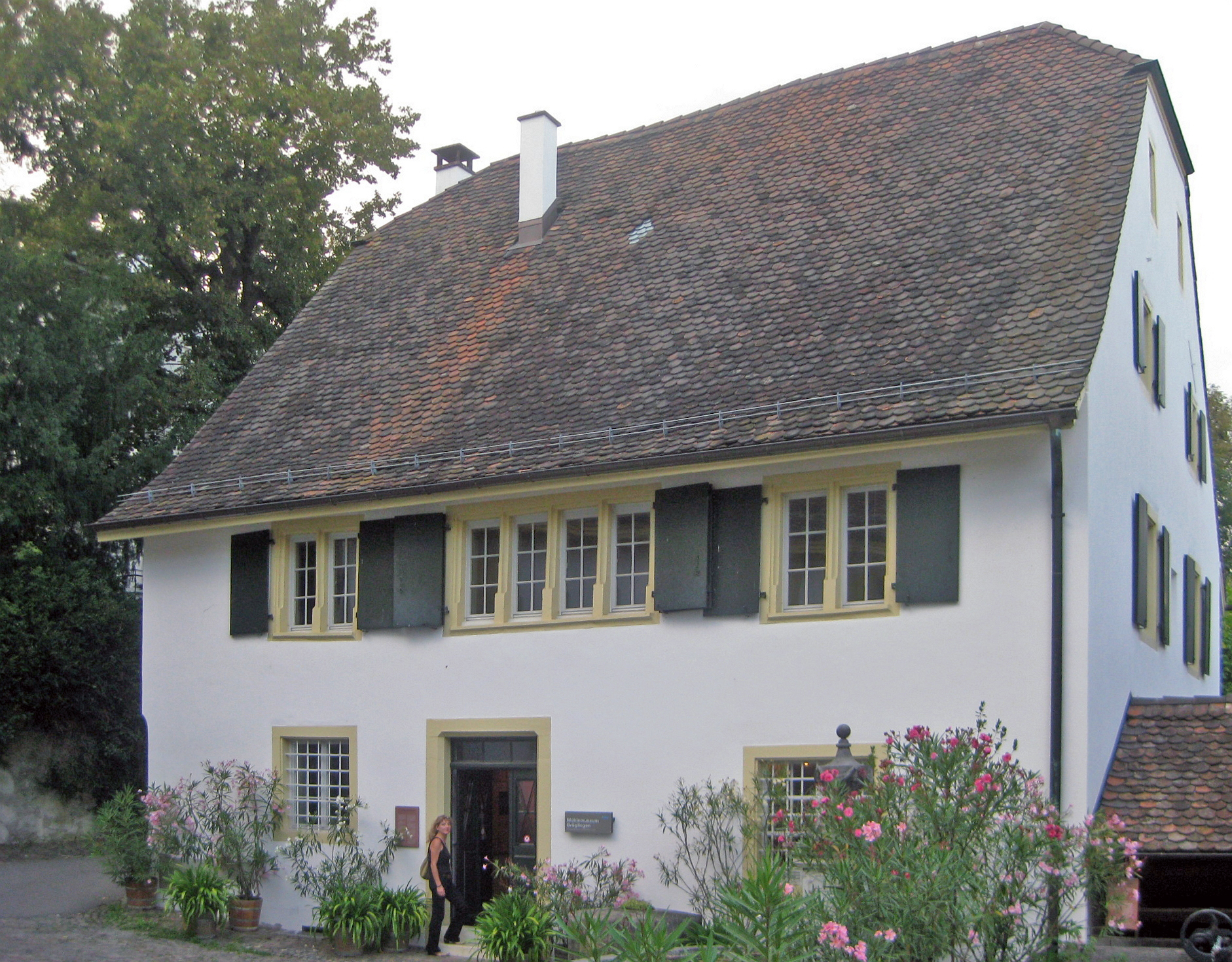 Watermill Museum, Brüglingen, Münchensten, Front, Entrance